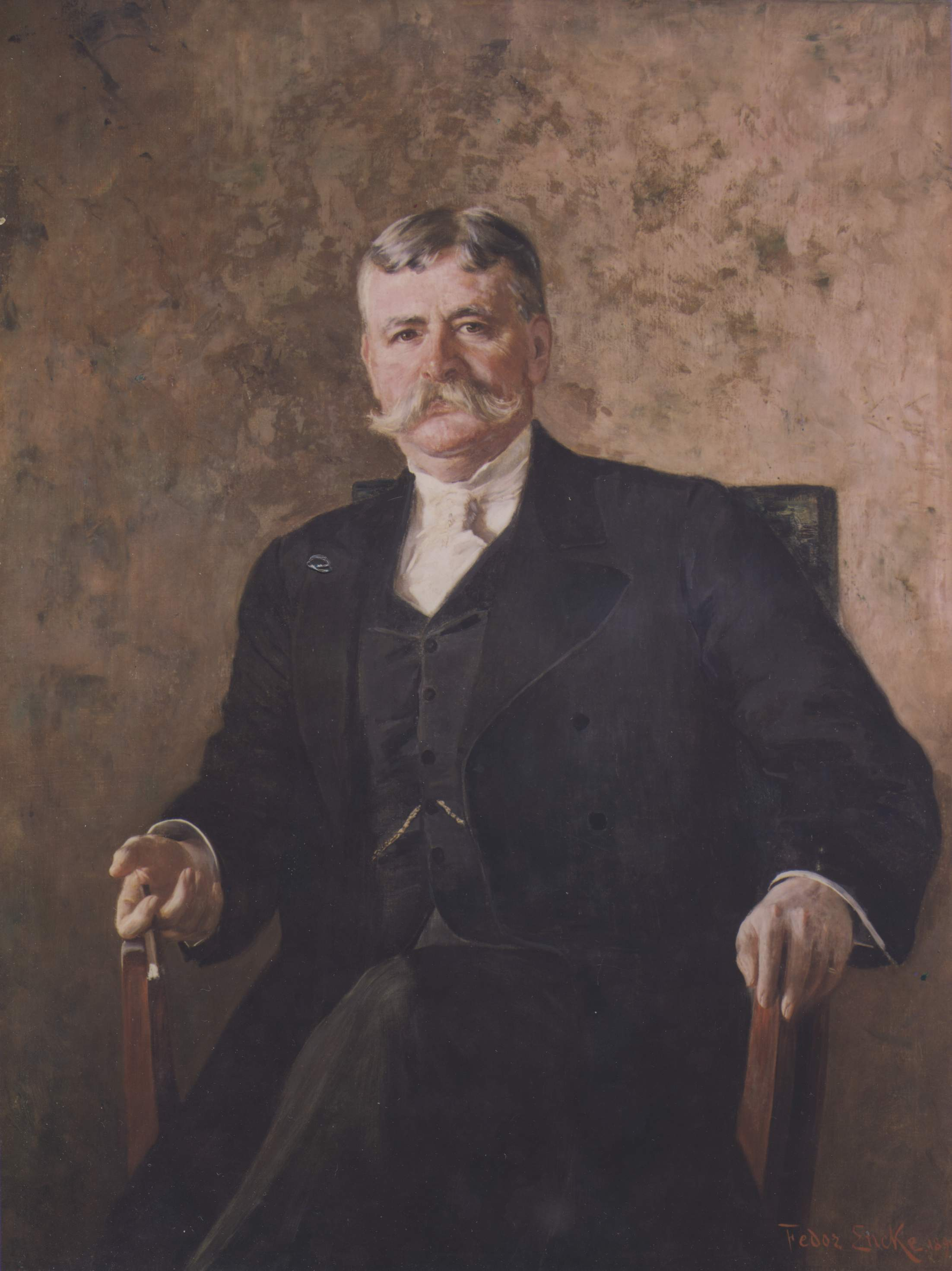 "Clement Acton Griscom," by artist Fedor Encke (1851-1936), oil on canvas.